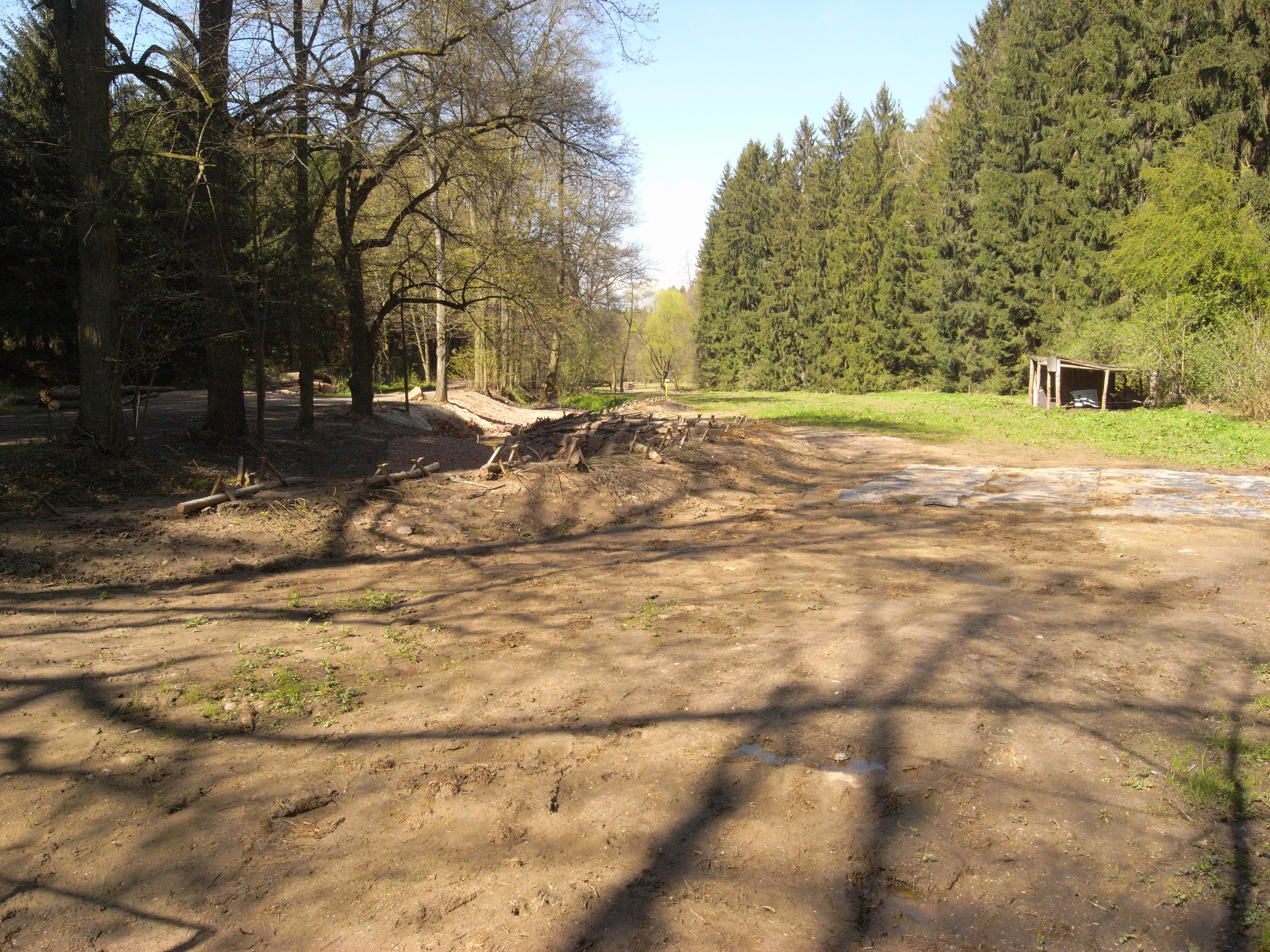 forest of Reinhardtsgrimma, valley of the Cunnersdorf Creek (district Sächsische Schweiz-Osterzgebirge, Saxony, Germany)